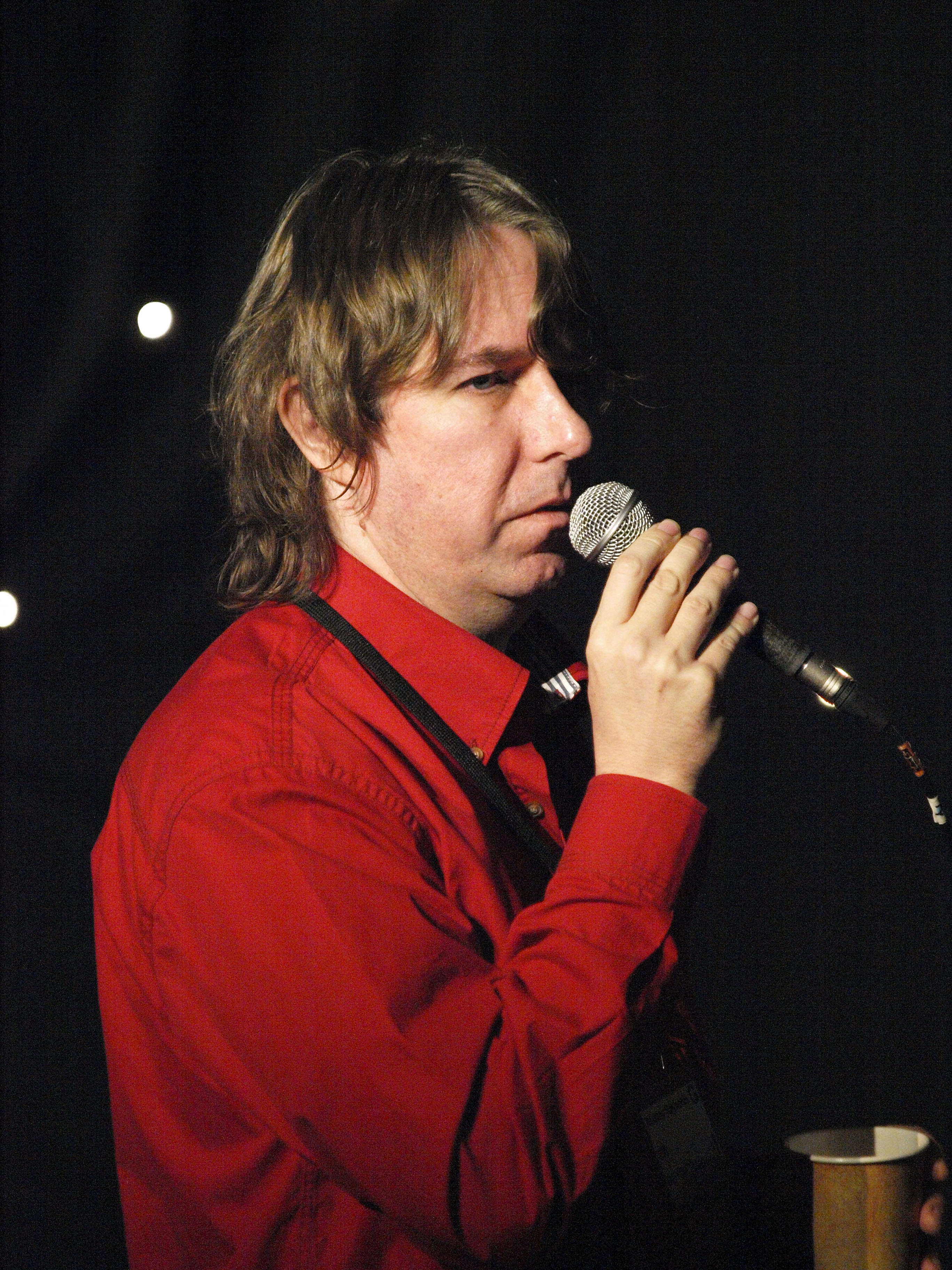 Alastair Reynolds a British science fiction author.